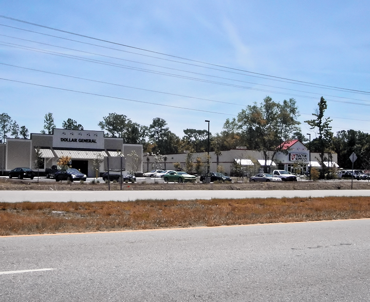 First two national chain stores in Awendaw, SC. - Tracter Supply Co., and then Dollar General (2012 & 2013)